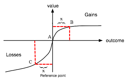 Value function in Prospect Theory, drawing by Marc Oliver Rieger.